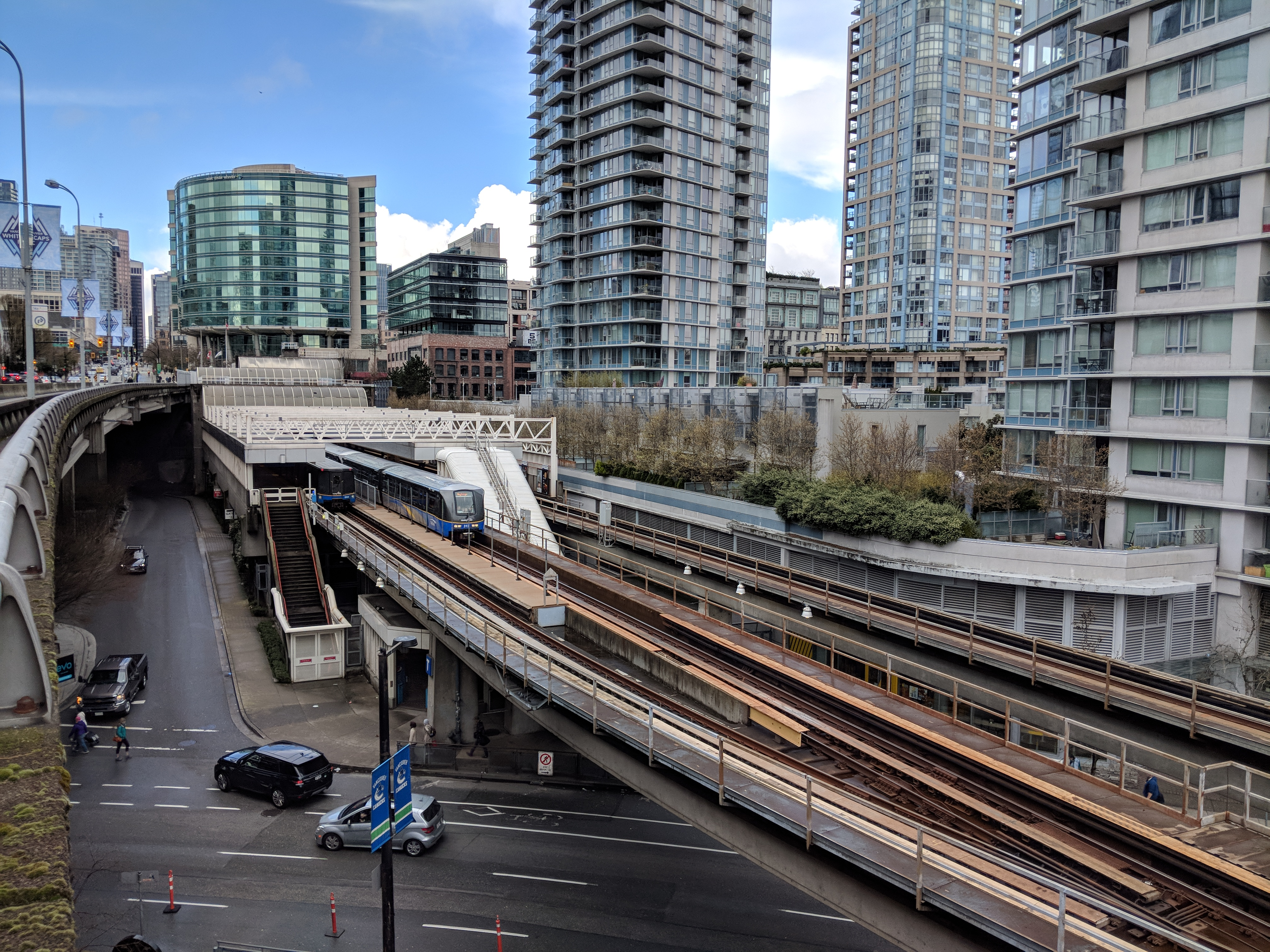 Exterior shot of Stadium–Chinatown station. Photo is taken from the Dunsmuir Viaduct.